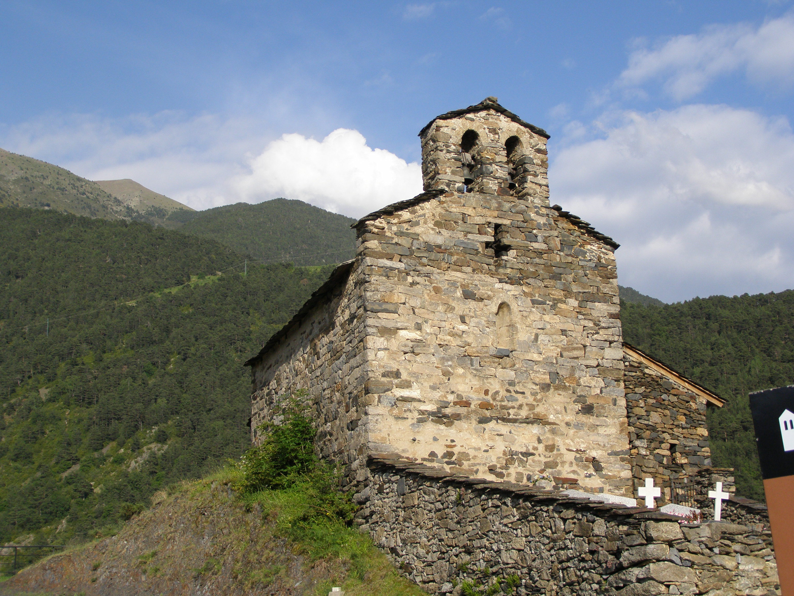 Sant Cerni de Nagol, Sant Julià de Lòria (Andorra)